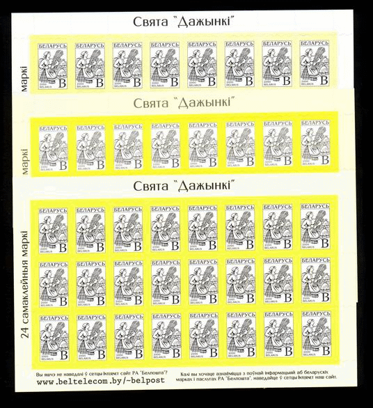 'Dazhinki' (traditional Belorussian folk celebration related to end of harvesting). A stamp sheet of non-denominated postage stamps of Belarus, 2000, letter "B". Varieties in color.